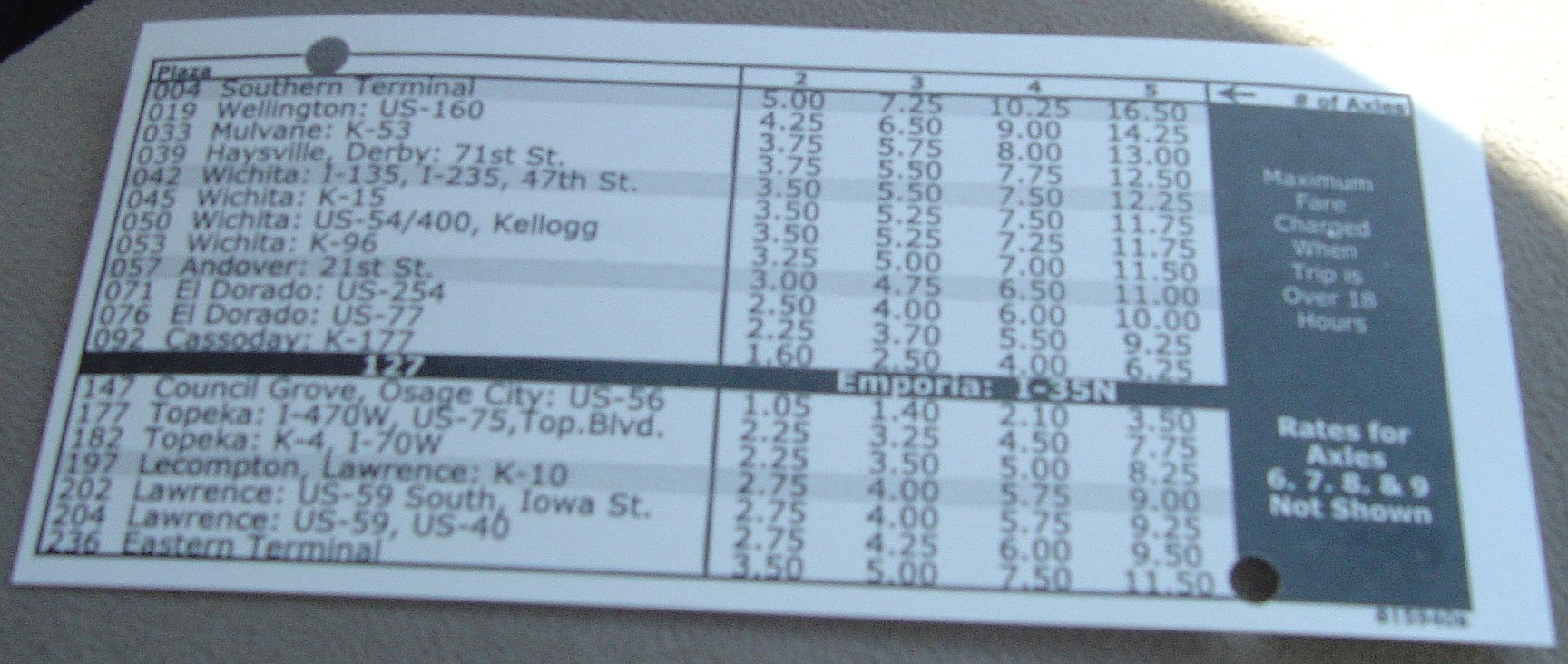 Photograph of a ticket from the Kansas Turnpike. Taken by user. Slightly altered to make the text more readable.